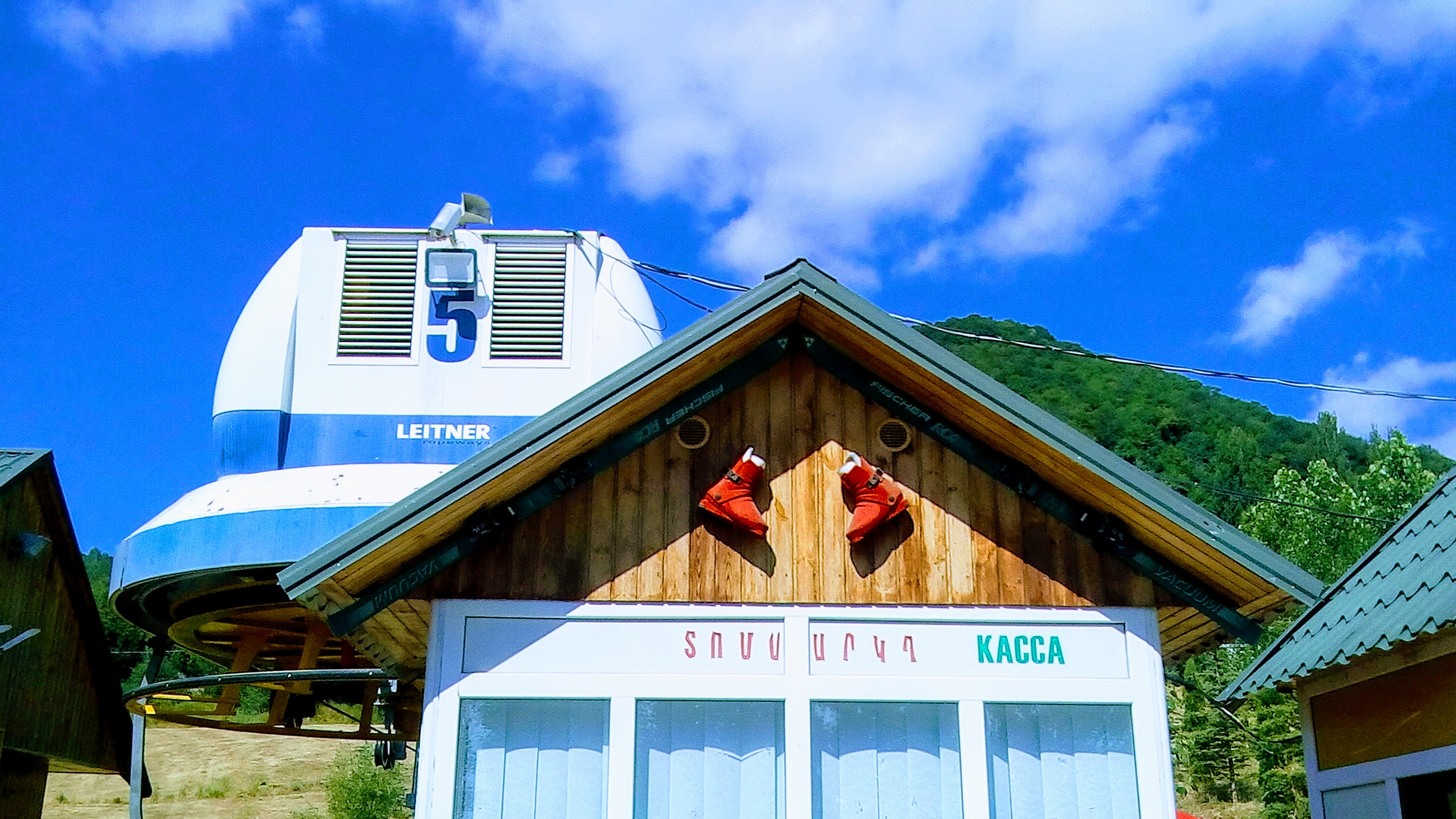 The ticket office building of Tsaghkadzor Aerial lift